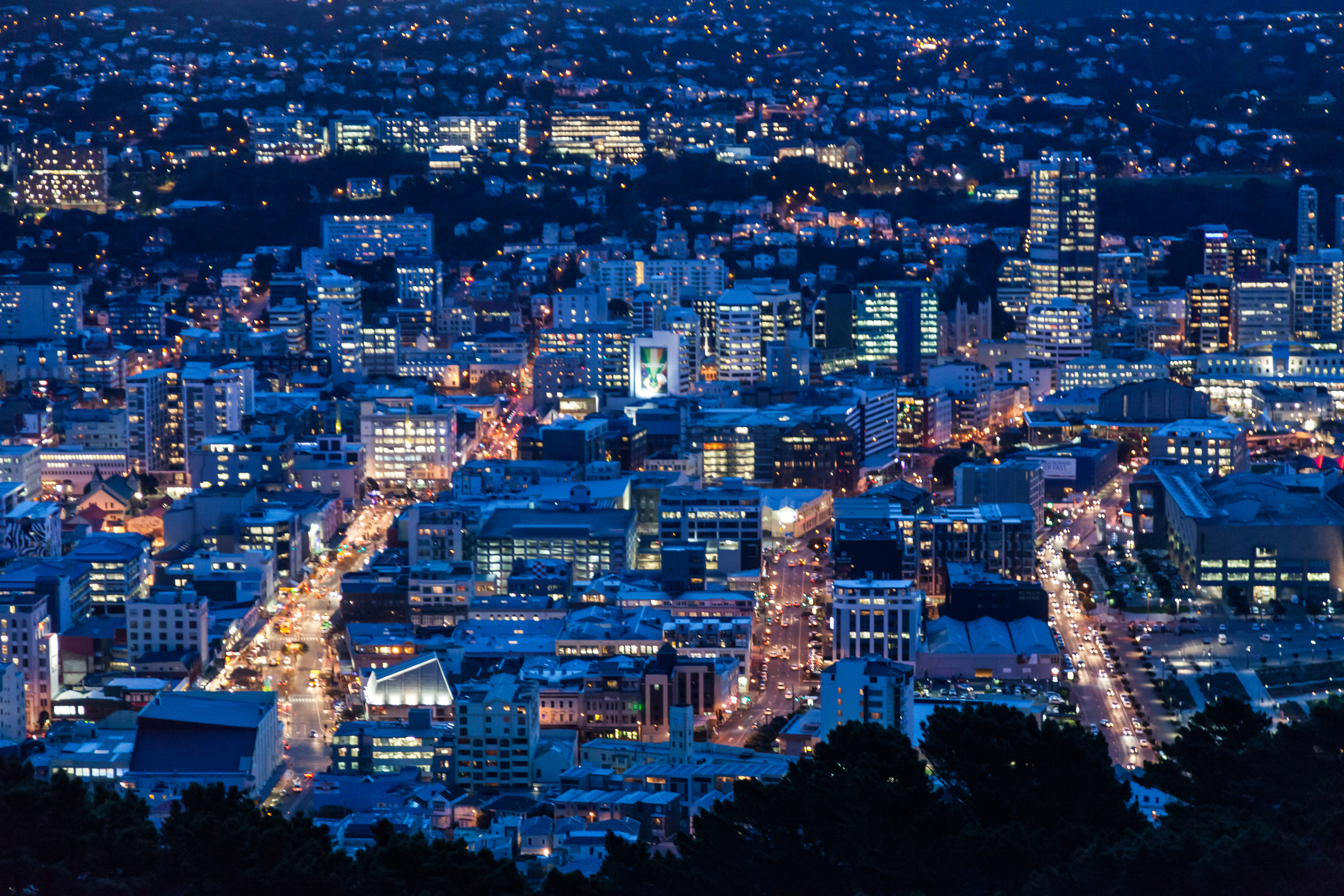 Wellington Central at dusk